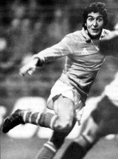 Jean-Marie Eli, french soccer player